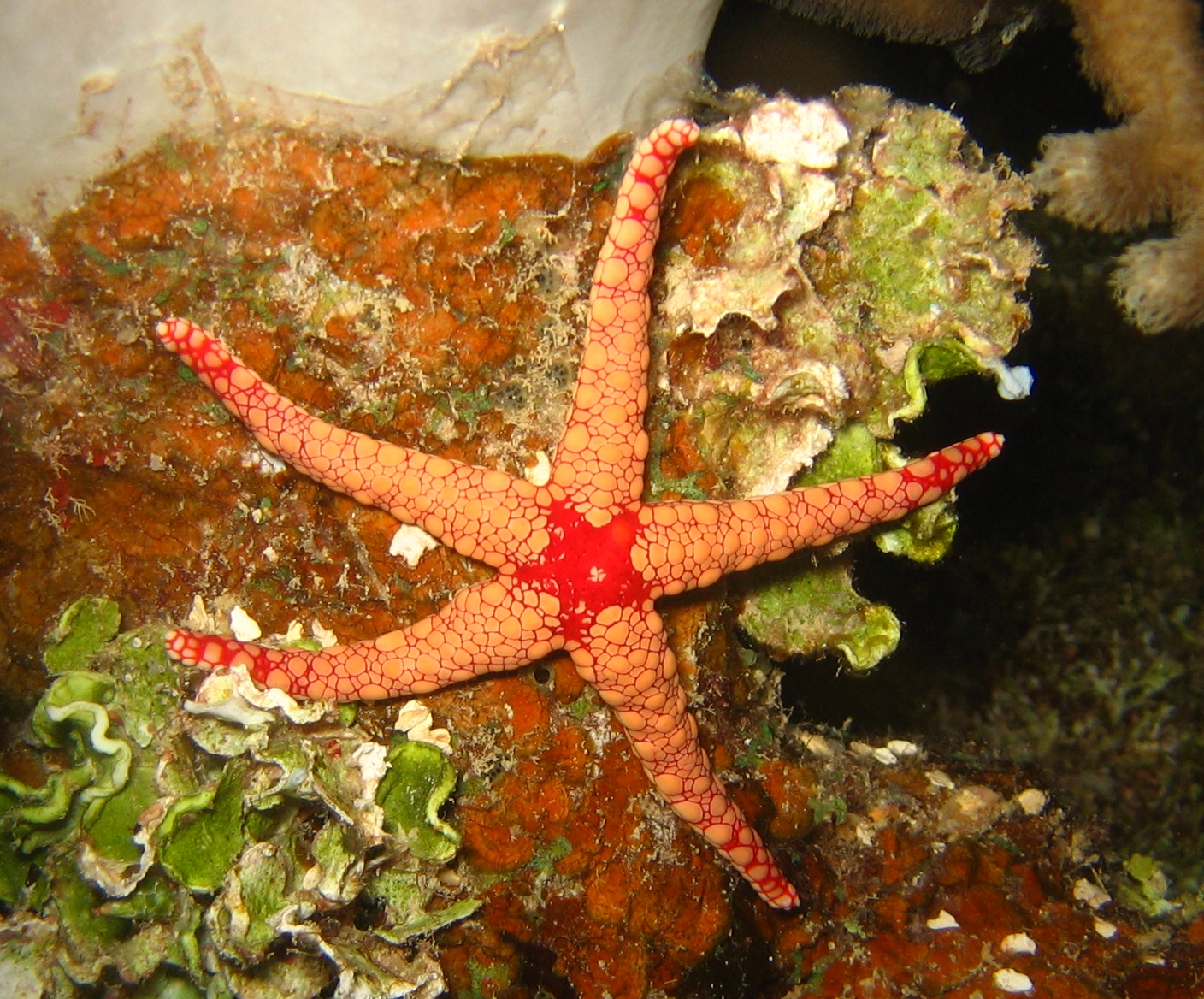 A small orange starfish (Fromia sp.) Image ID: reef0598, NOAA's Coral Kingdom Collection Location: Chuuk, Federated States of Micronesia